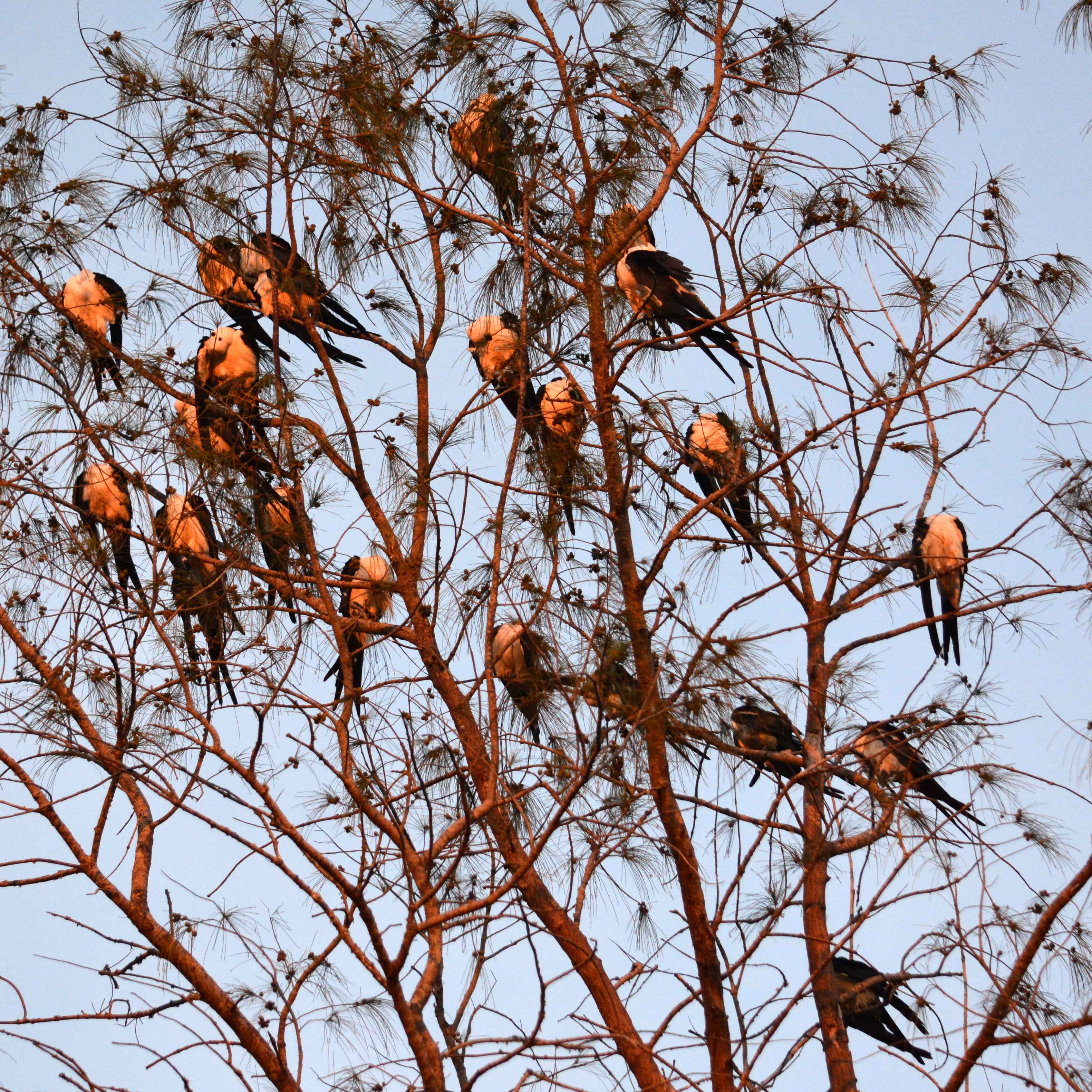 Swallow-tailed kite, Elanoides forficatus, in Sanibel Island, Florida. Group of 21 individuals gathering at night - note that reddish color is due to sunset.